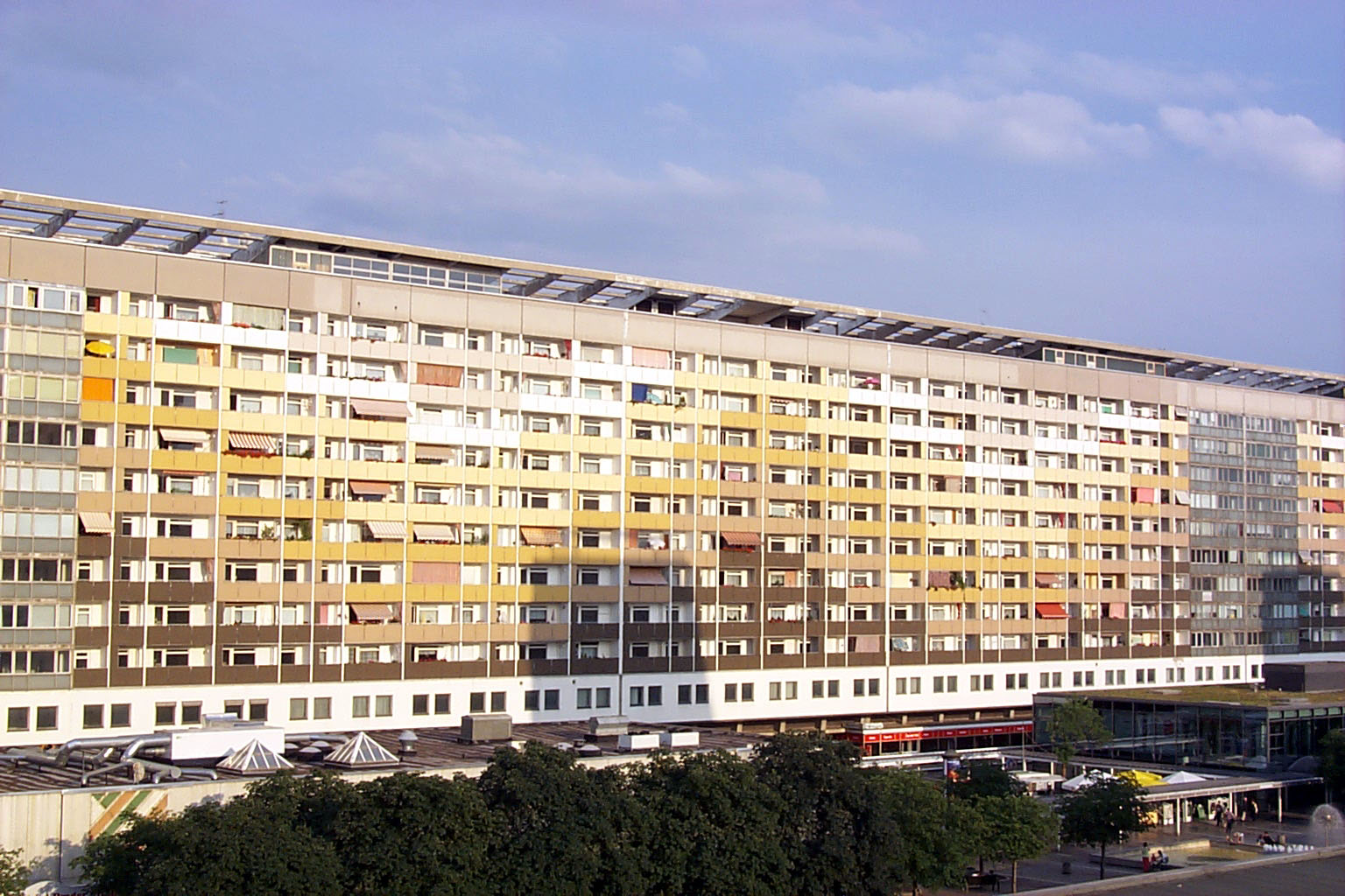 The East Germans liked their apartment blocks big and monotonous apparently...